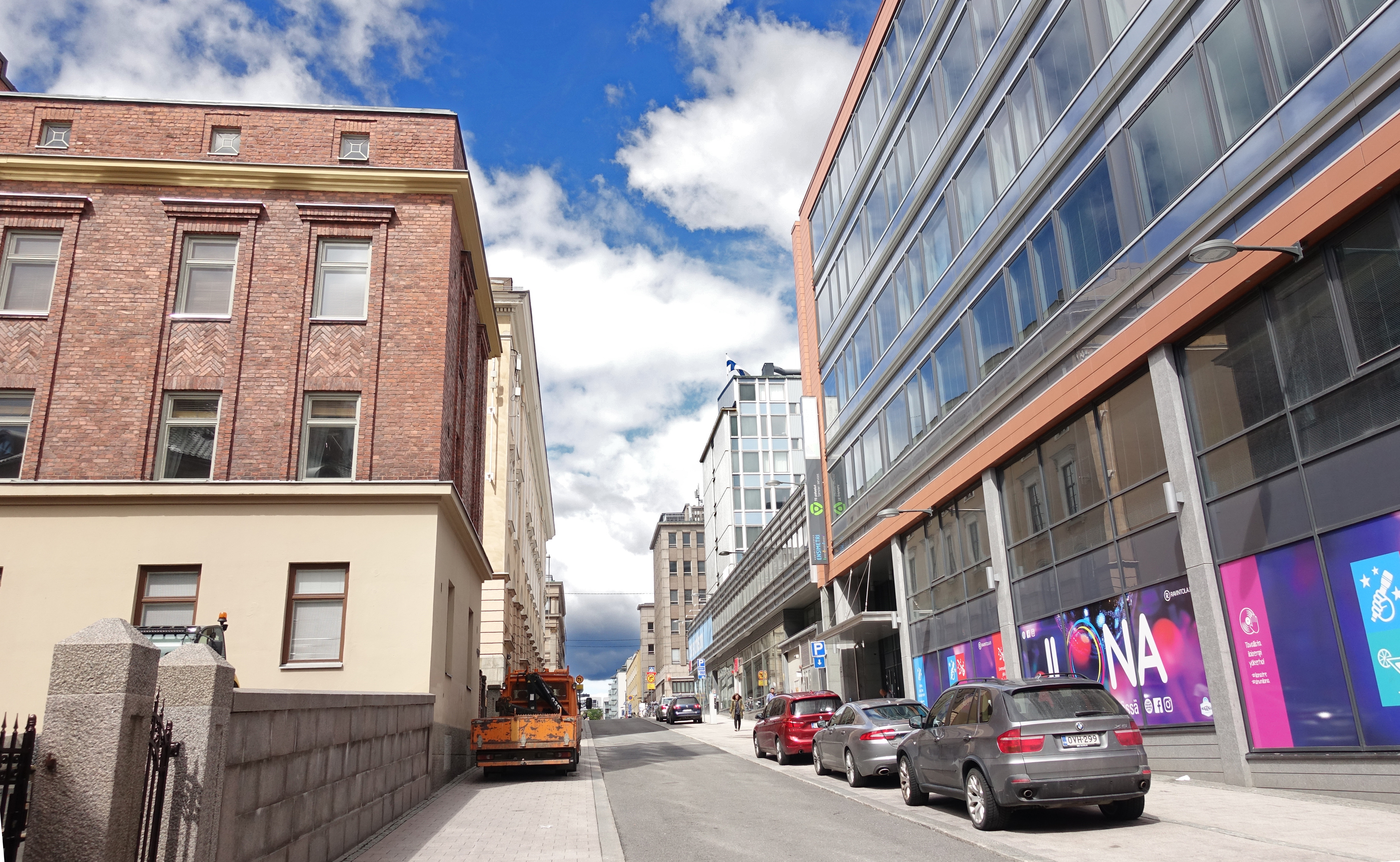 Pellavatehtaankatu in Tampere, Finland.